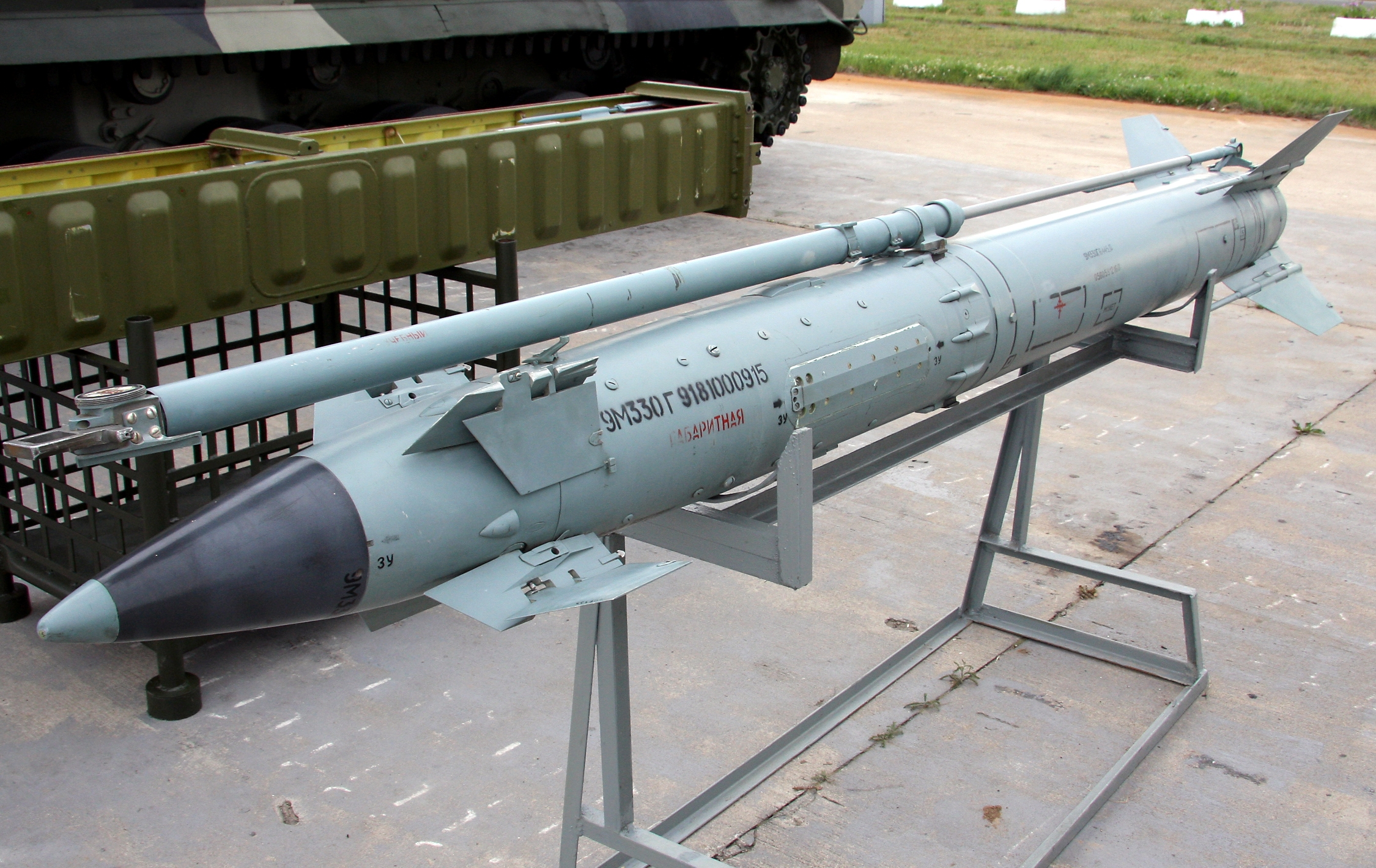 Surface-to-air guided missile 9M330.